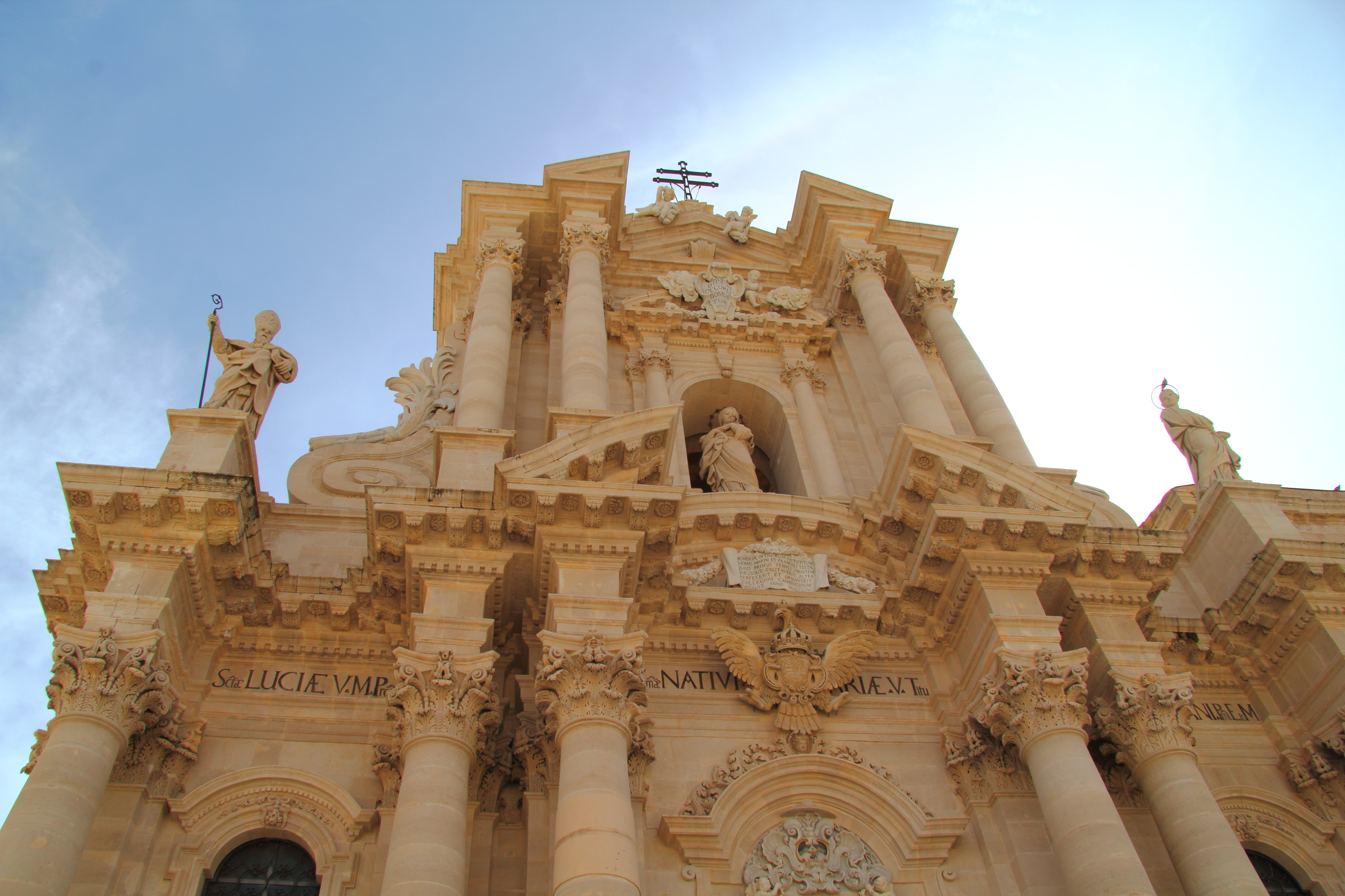 Italy: Syracuse on Sicily, old city on Ortygia island